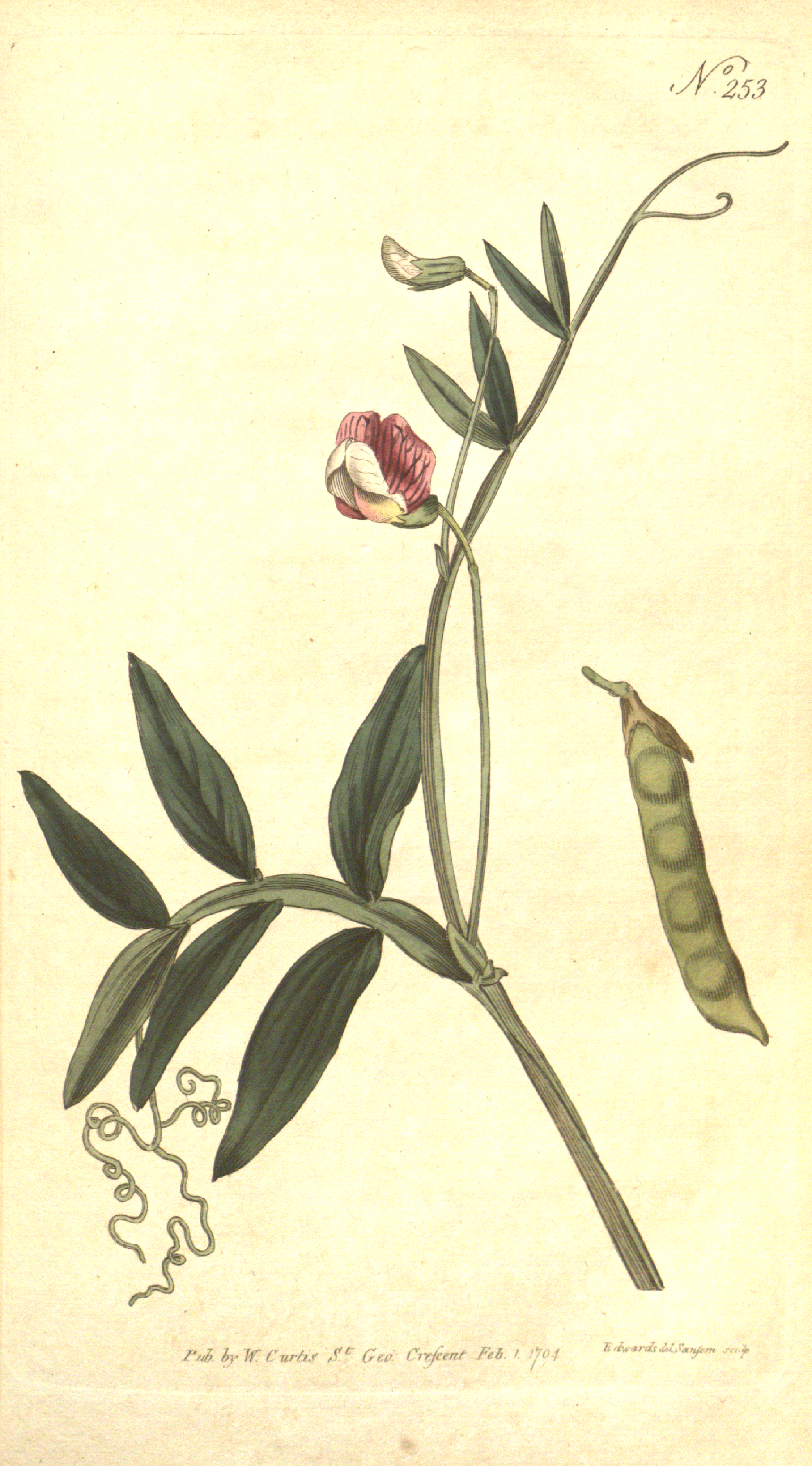 This is a plate from The Botanical Magazine, Volume 8.